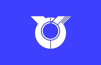 Flag of Higashiizu Shizuoka